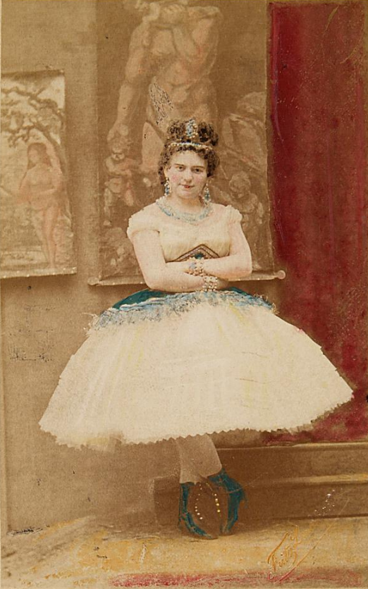 Austrian singer and actress Josefine Gallmeyer, as Aspasie in Jacques Offenbach's operetta "Die Kunstreiterin, oder Ein weiblicher Haupttreffer", 1864, photograph by Fritz Luckhardt (1843-1894)